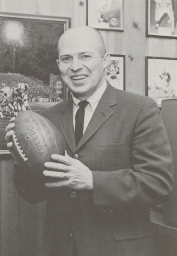 University of Toledo football coach Frank Lauterbur from the 1968 “Blockhouse” yearbook